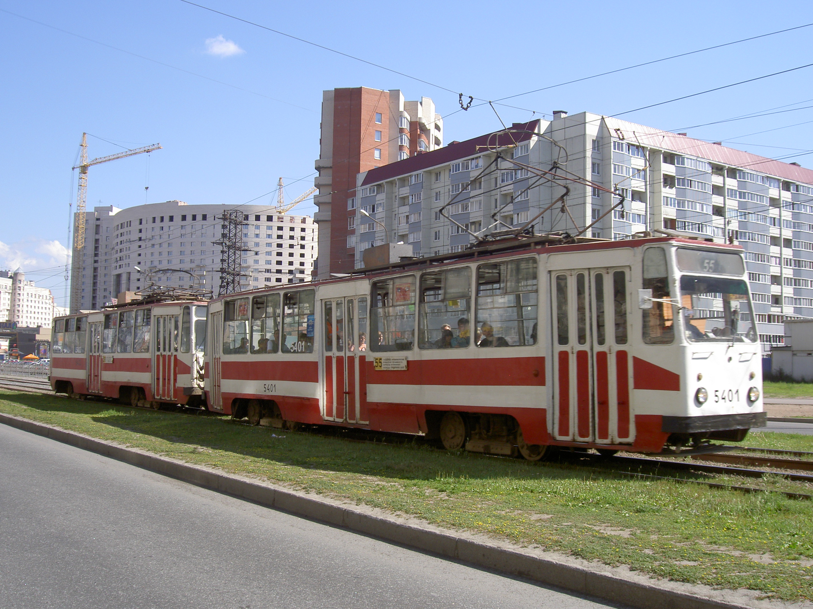 Tram 5401+5402 at Ilyushina street